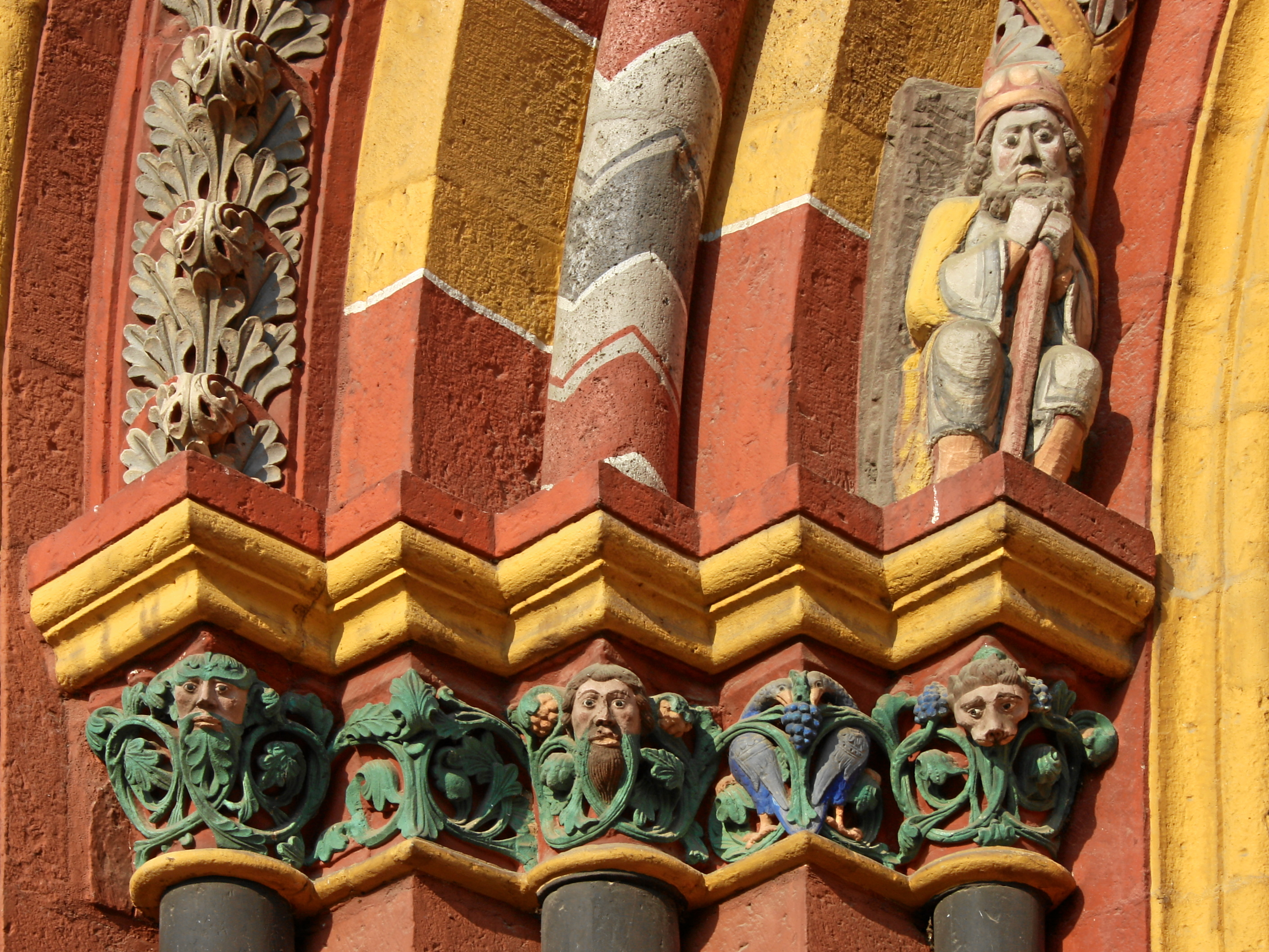 Limburg, Germany. Catholic cathedral Saint George. Sculptures at the (western) portal.